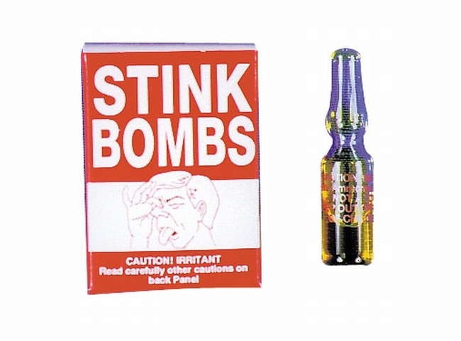 Uploaded by Moon Costumes, Photograph of a widely distributed gag stink bomb, package and example of breakable enclosure. The picture is of a brandless generic.